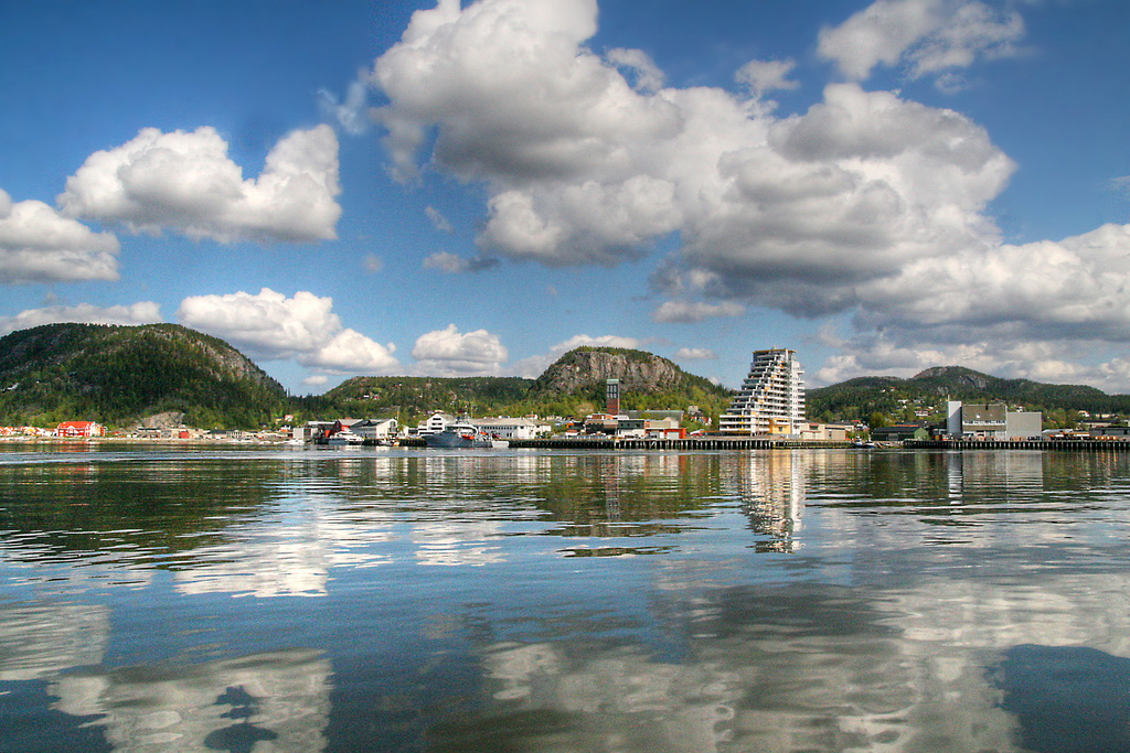 Namsos from the sea. Summer 08.